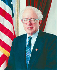 Larger Bernie Sanders' U.S. House of Representatives portrait (1991)